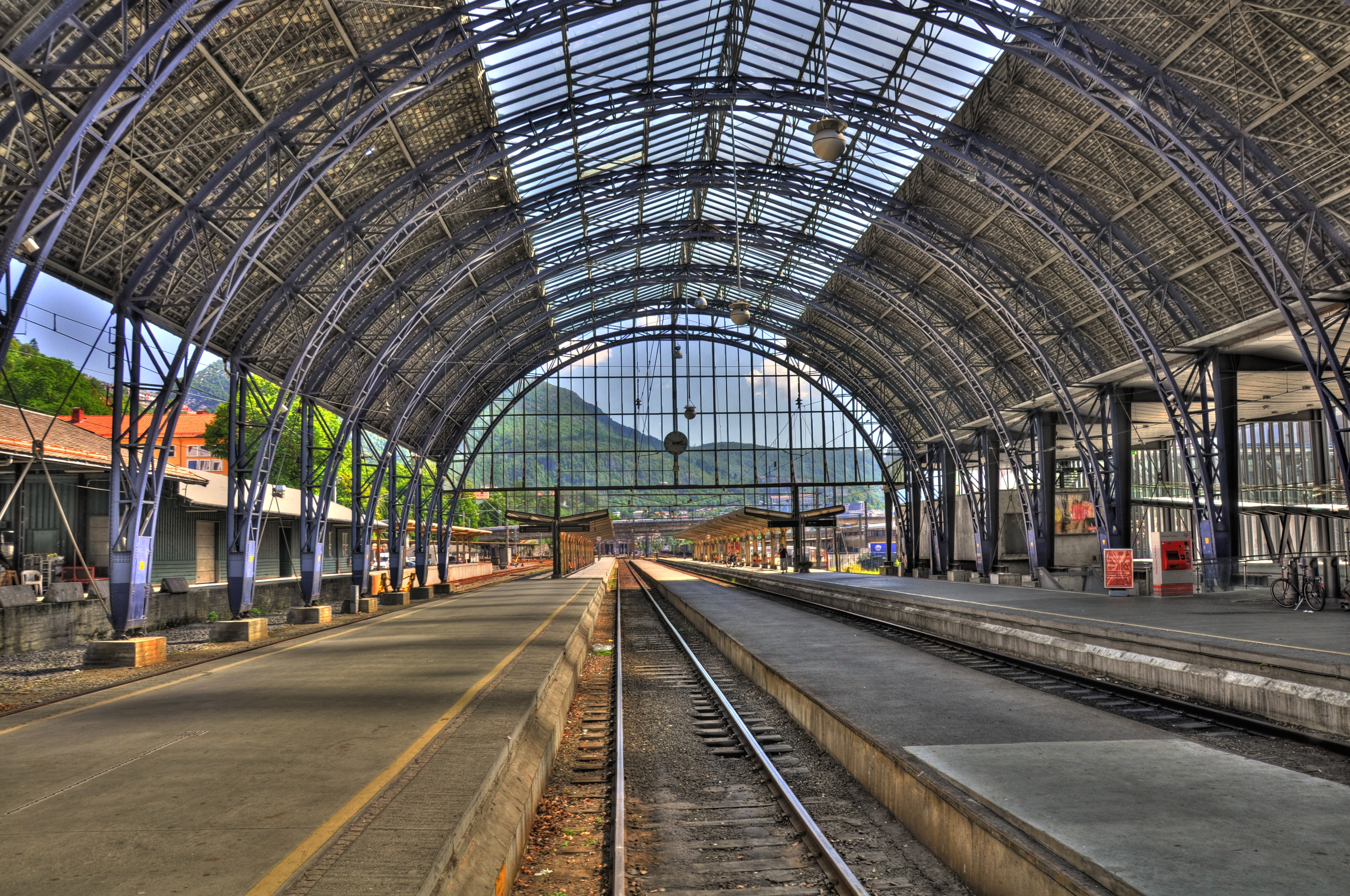 Inside Bergen Station. HDR. Three handheld exposures, two f-stops between each, from Bergen train station.